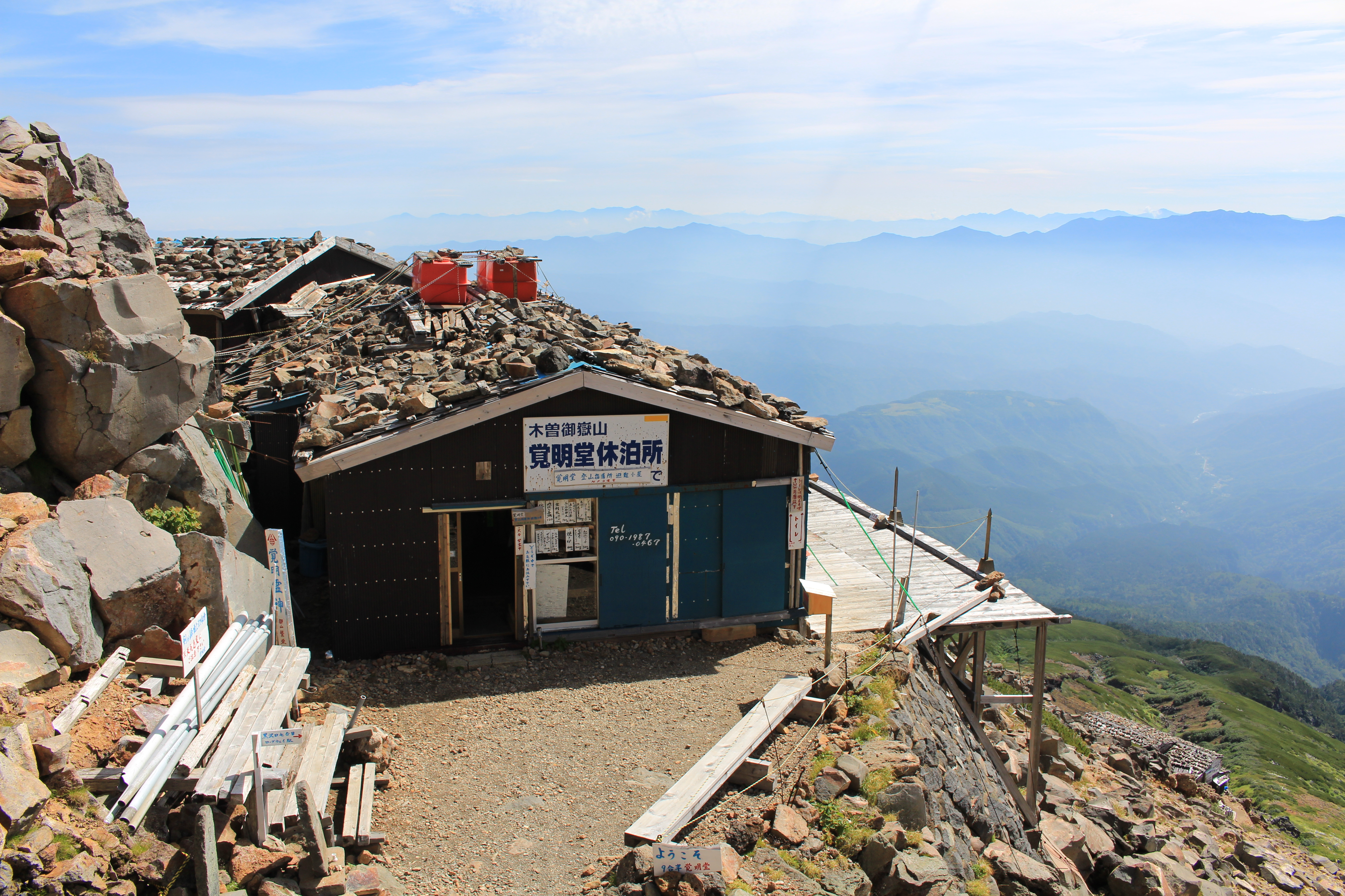 Kakumeidō(Mountain huts) on Kurosawa root in Mount Ontake, Kiso, Nagano prefecture, Japan.